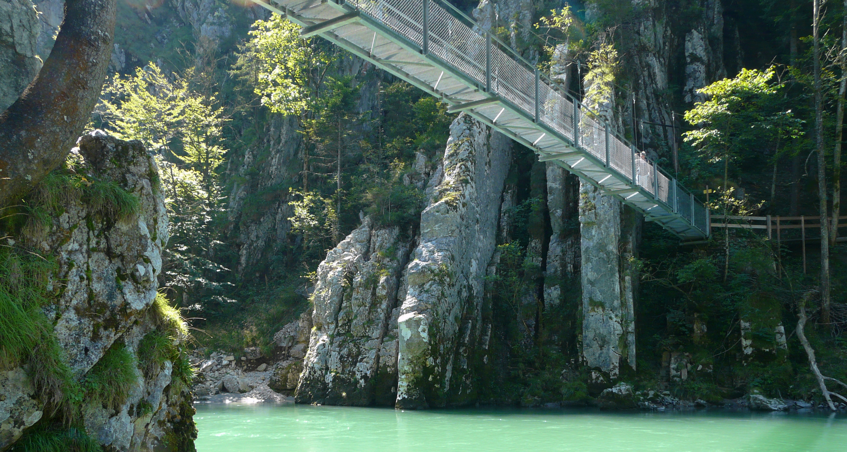 swing bridge in ravine "Entenlochklamm", in background bold rocks, limestone "Kössener Schichten"